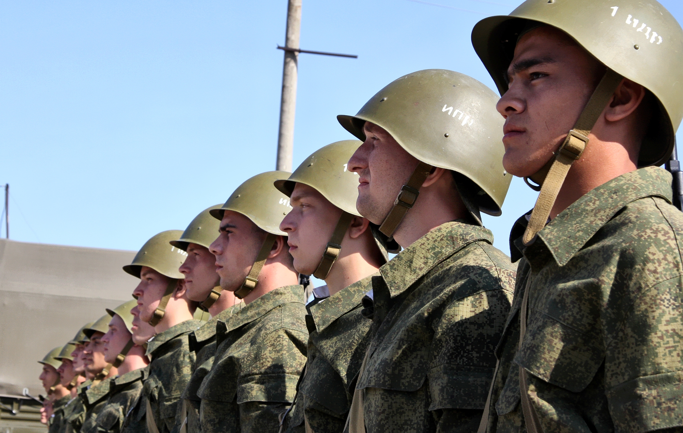 The 45th Separate Engineer-Camouflage Regiment of Russia.